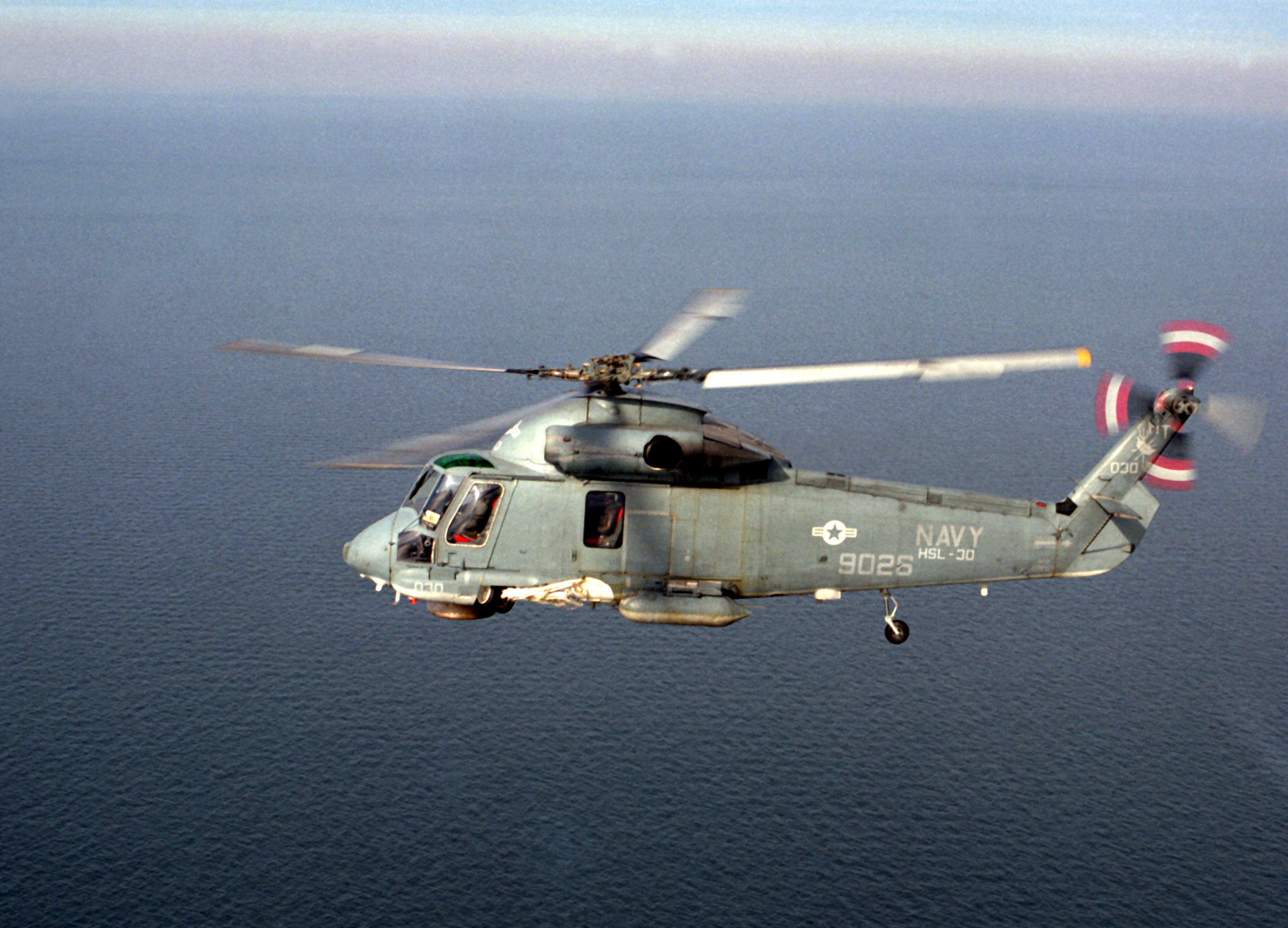 A U.S. Navy Kaman SH-2F Seasprite (BuNo 149026) of Light Helicopter Antisubmarine Squadron 30 (HSL-30) in flight. This helicopter was originally delivered as an UH-2A and later modified to an SH-2F. It is today on display at Naval Air Station Norfolk, Virginia (USA).